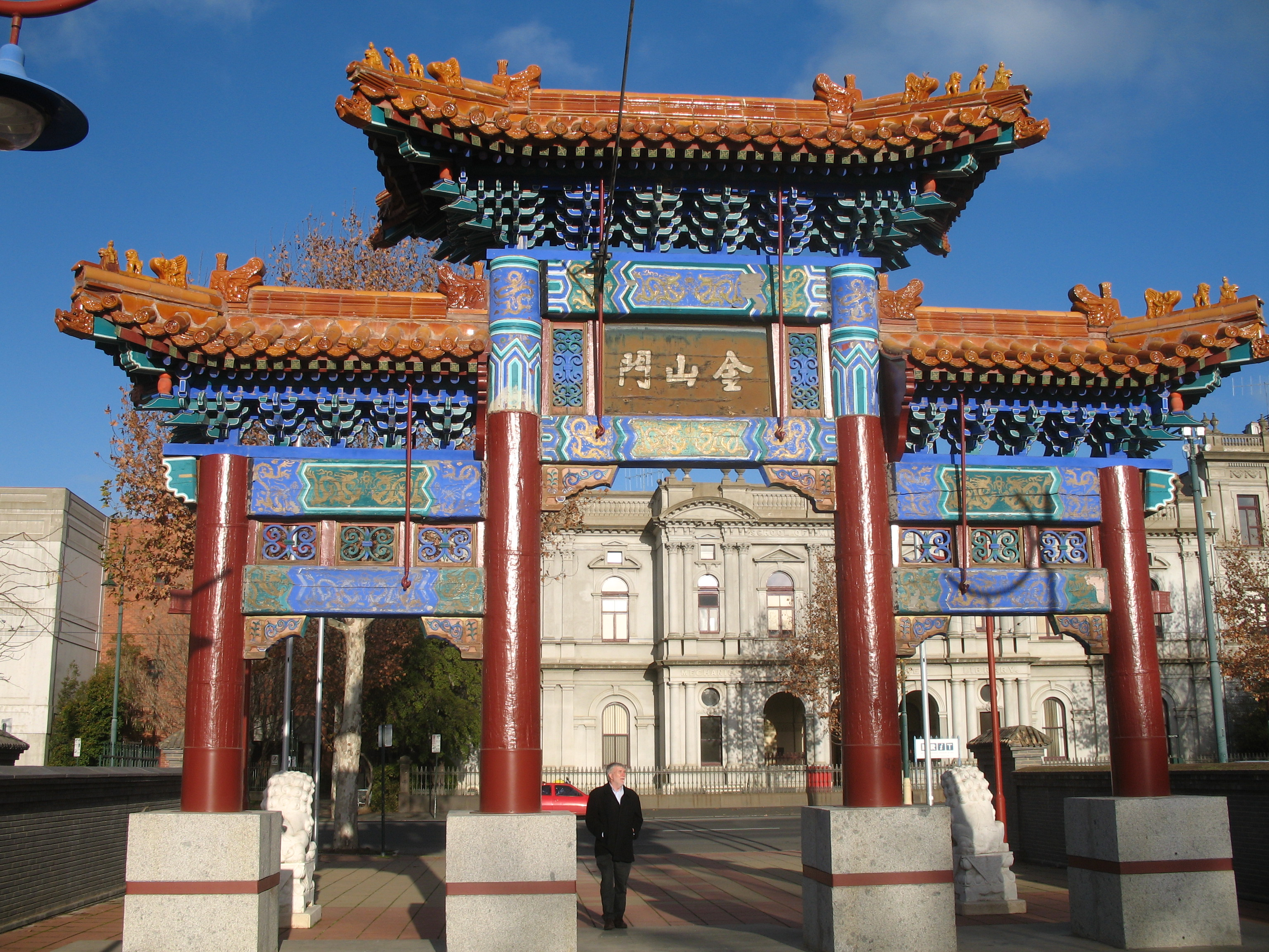 Bendigo had a large Chinese community in the gold rush days. There is a museum commemorating their contribution that inlcudes the largest Chinese Imperial era dragon (19th century) that still exists